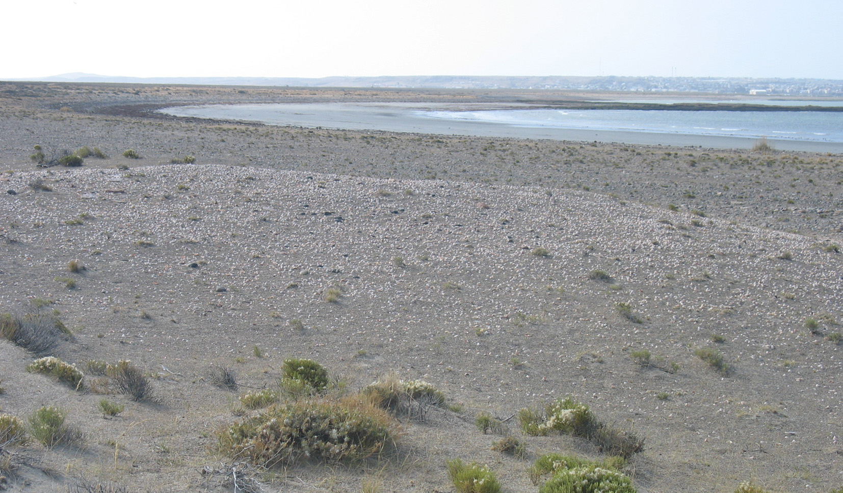 View of Punta Guanaco, looking northeast.